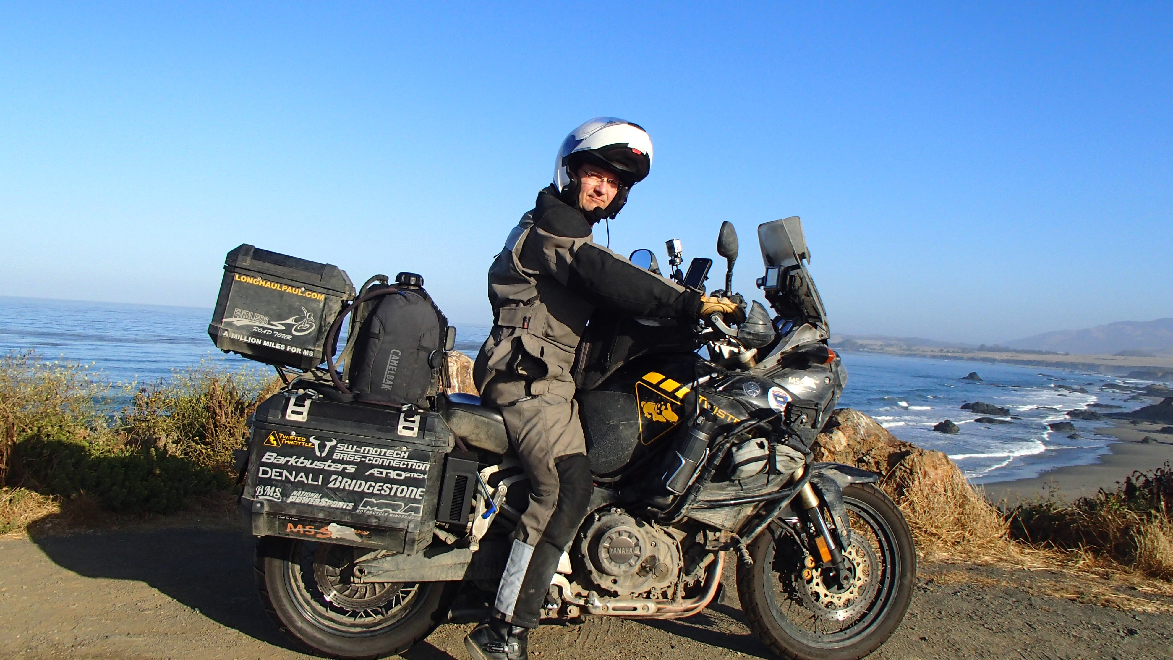 Pacific Coast Highway Paul Pelland